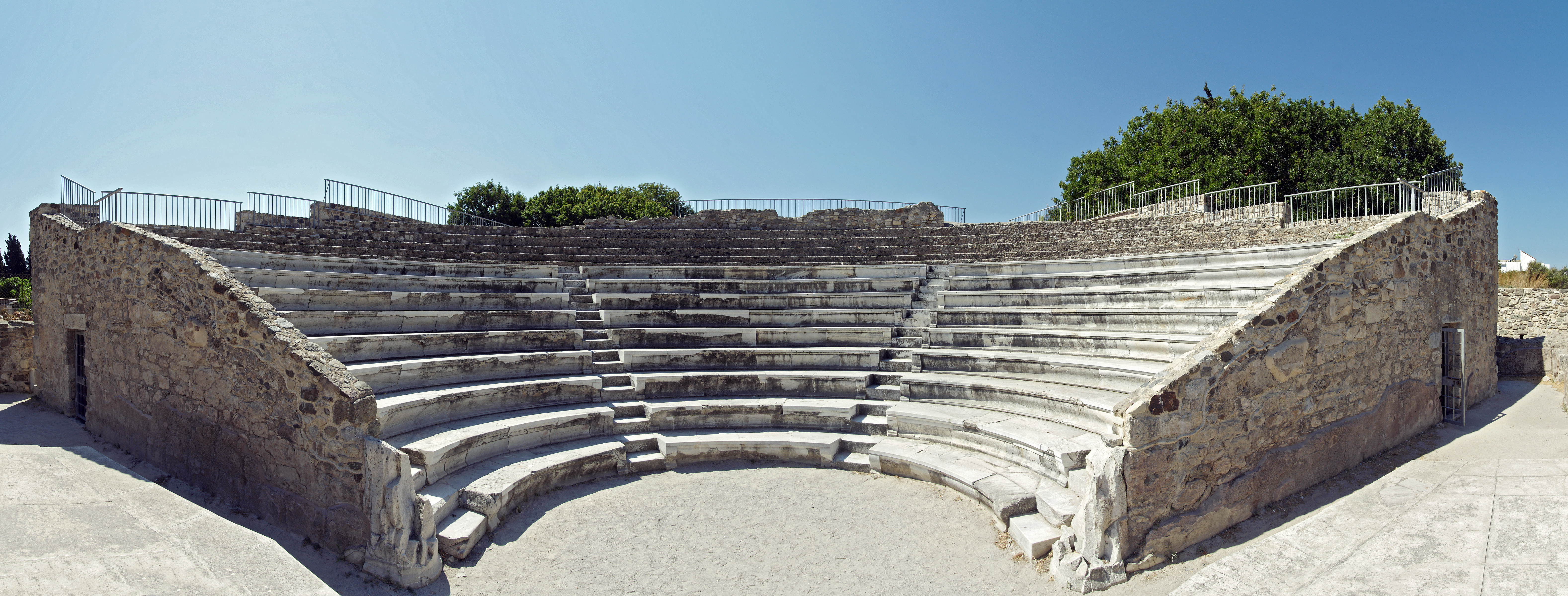 The Odeon of Kos in Kos, Greece.